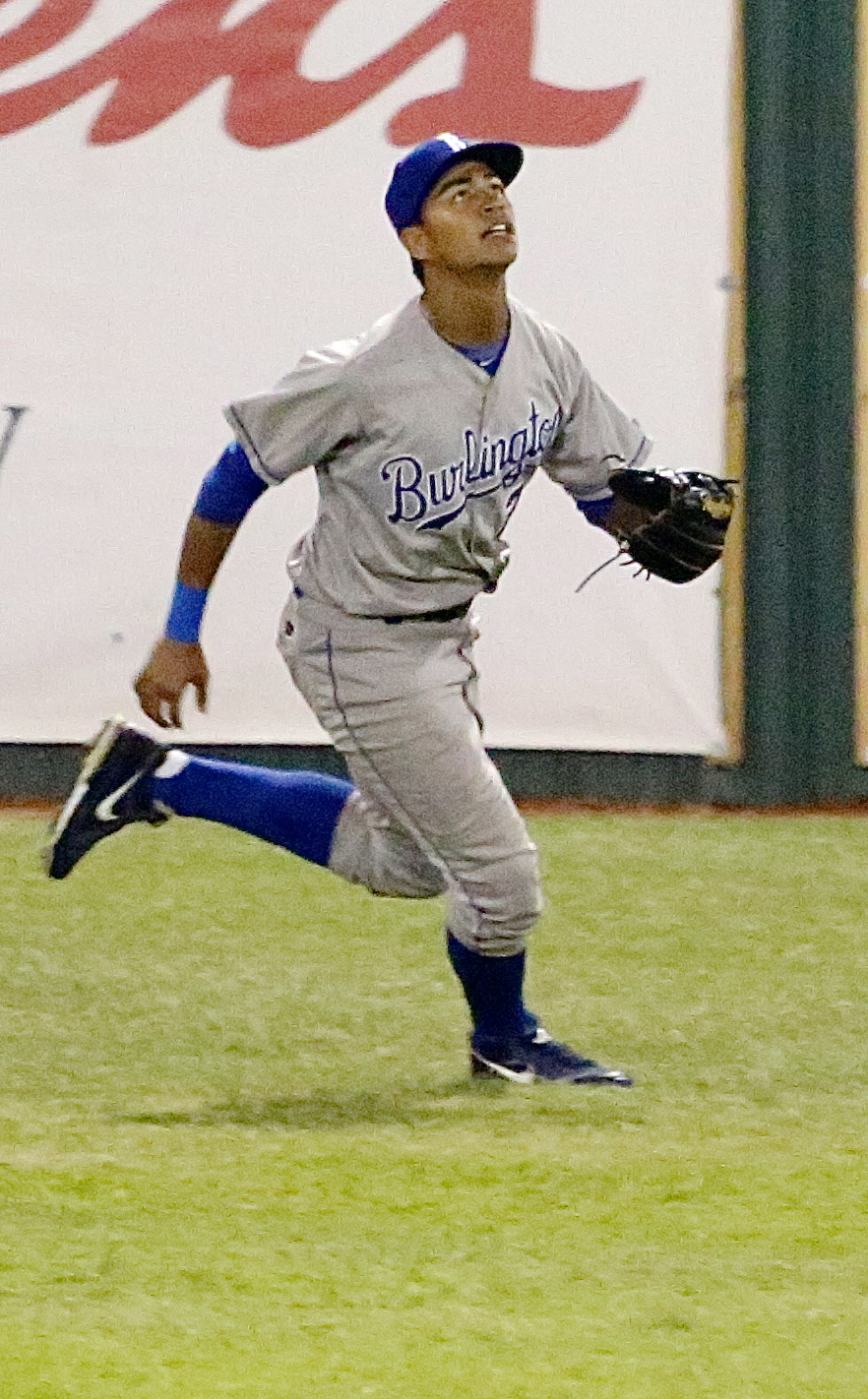 Close-up pic at Elizabethon